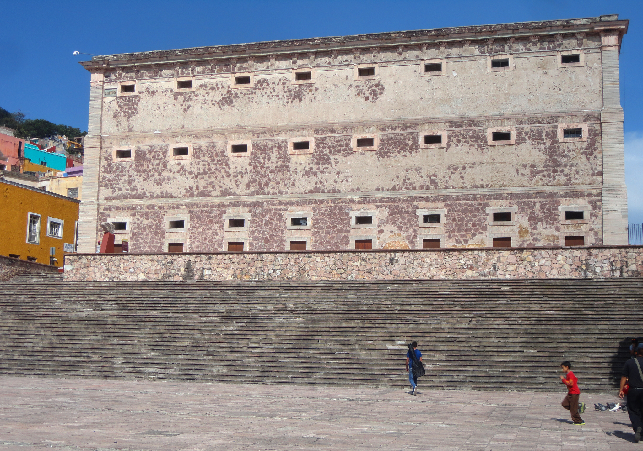 Alhóndiga de Granaditas - Guanajuato capital, Guanajuato, México.